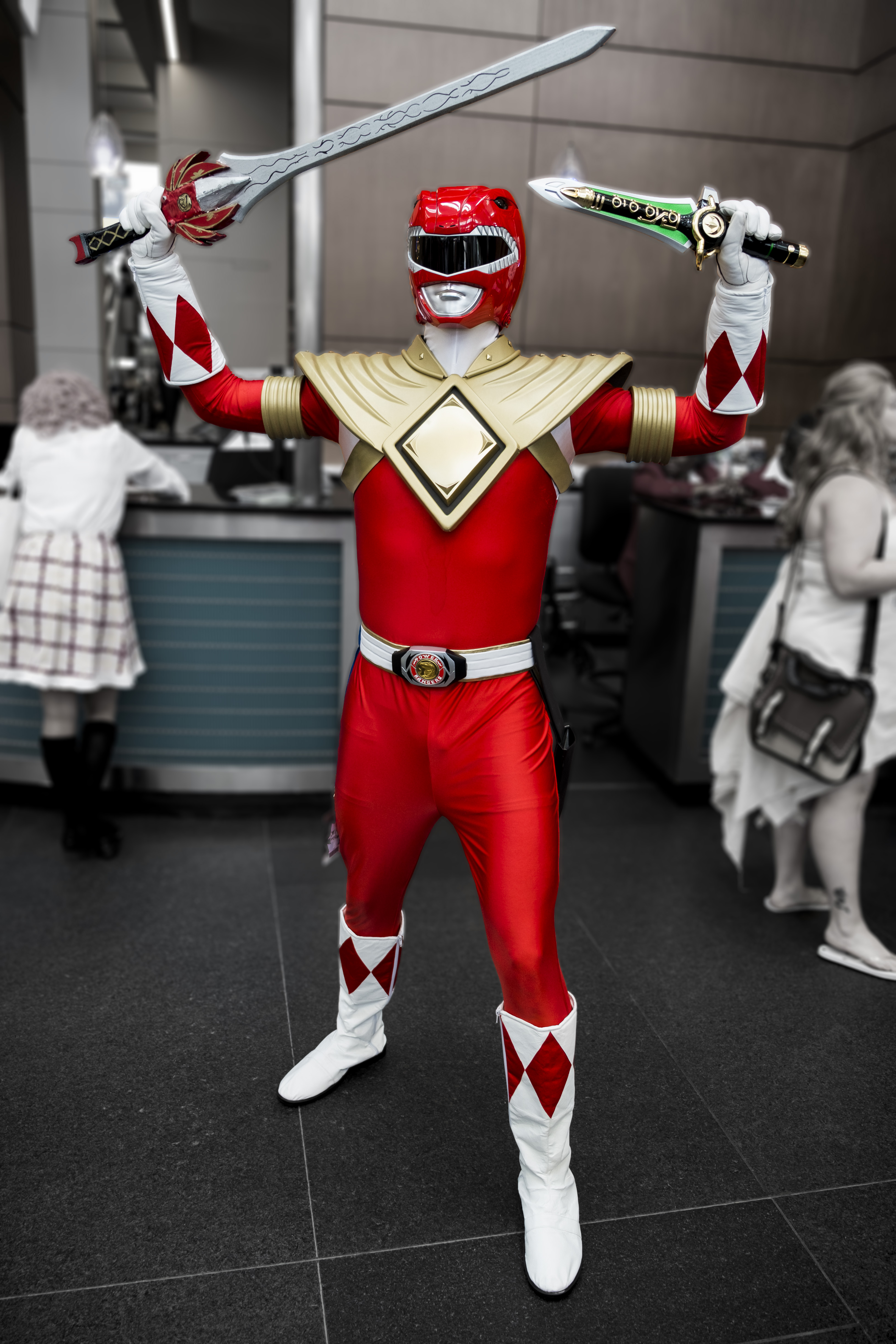 1_016 - Power Rangers -- Armored Red Ranger